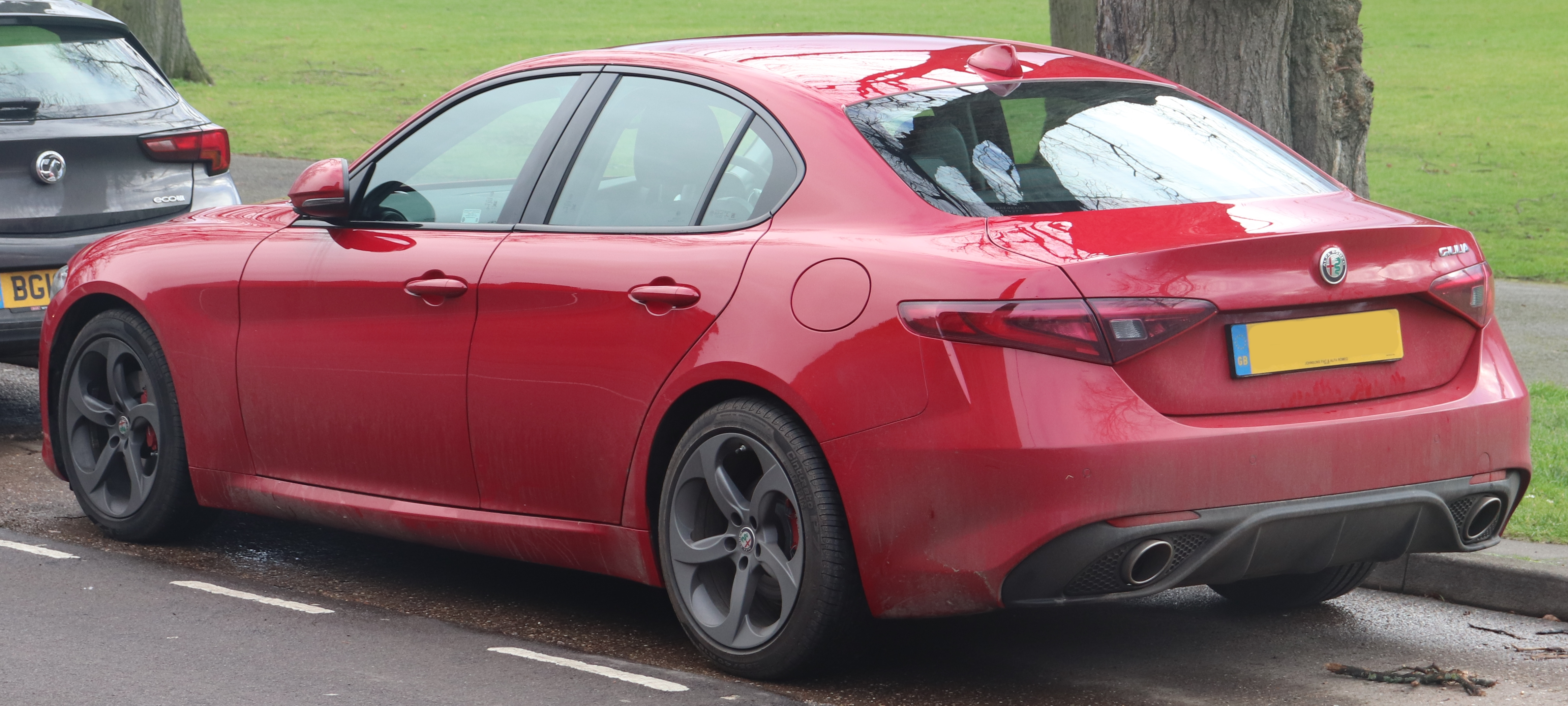 2017 Alfa Romeo Giulia Speciale TD Automatic 2.1 Rear Taken in Leamington Spa